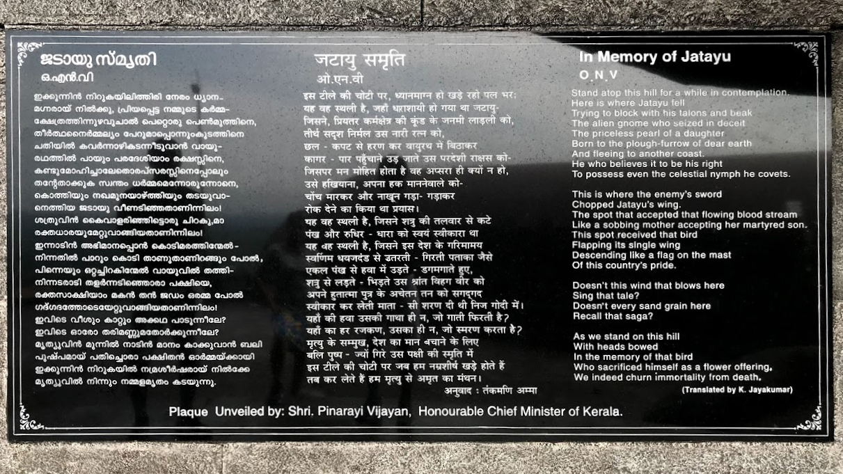 A picture of the plaque outside the Jatayu Museum at Jatayu Nature Park